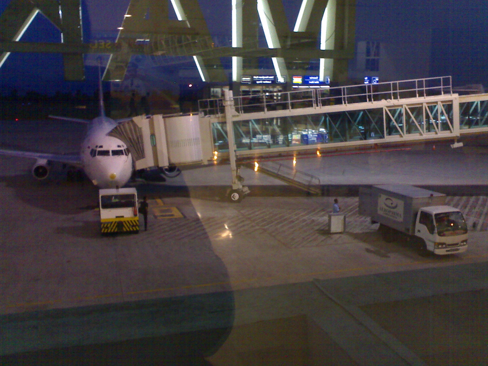 Sultan Hasanuddin International Airport